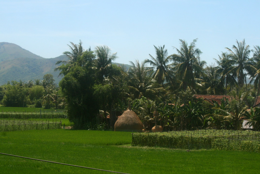 farm in Binh Dinh Province, Vietnam